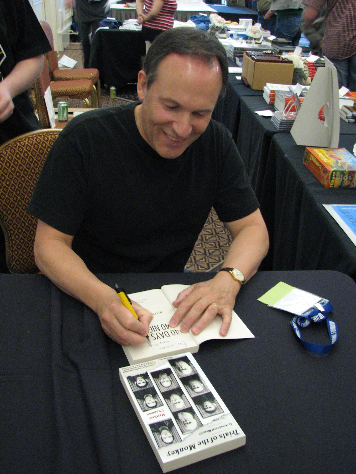 Matthew Chapman signing a copy of his book "40 Days and 40 Nights". Photo taken at JREF's Amazing Meeting 2008, TAM6.